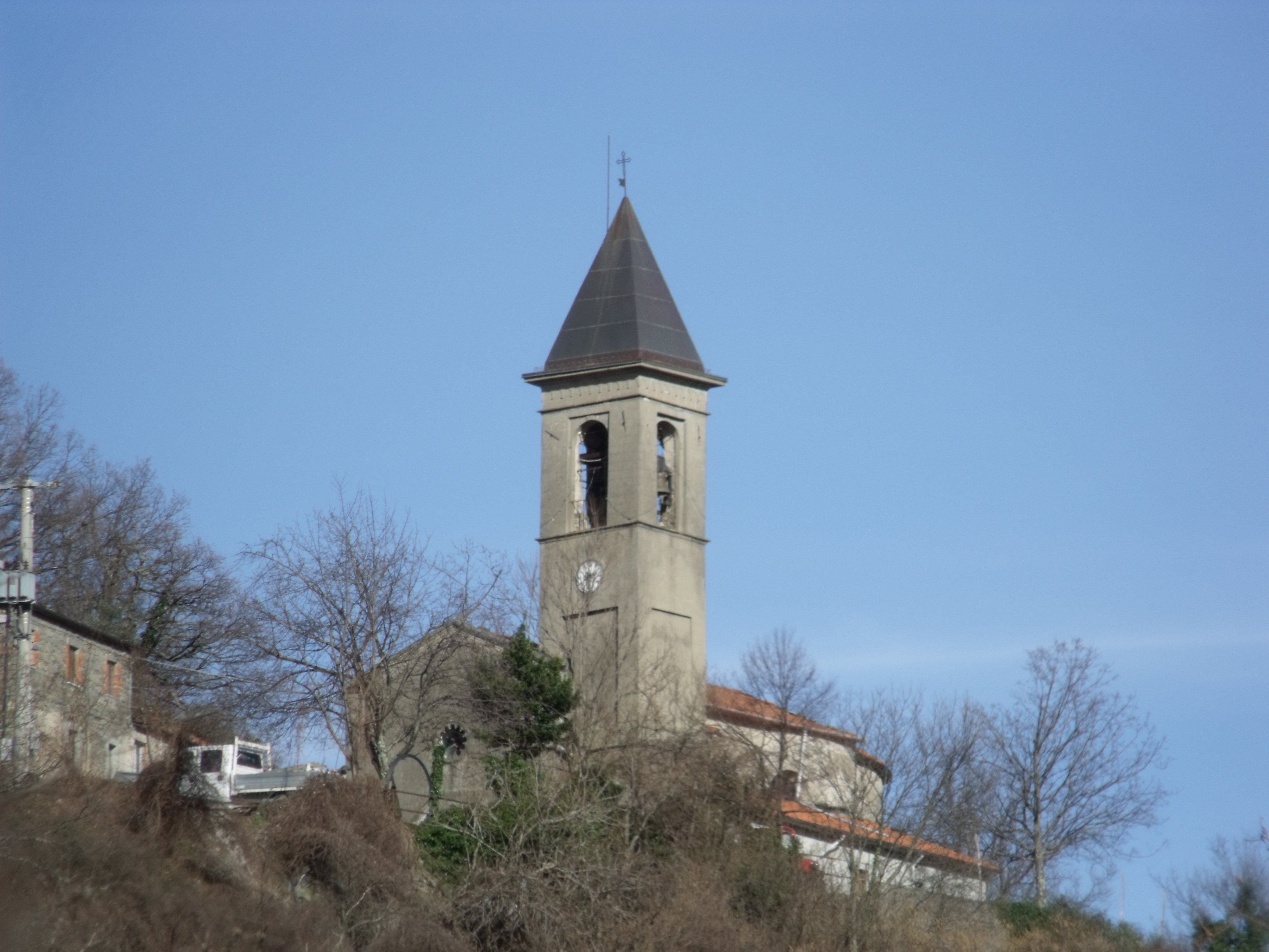 Church Santa Felicita in Codola, Comune of Zeri, Lunigiana, Province of Massa-Carrara, Tuscany, Italy